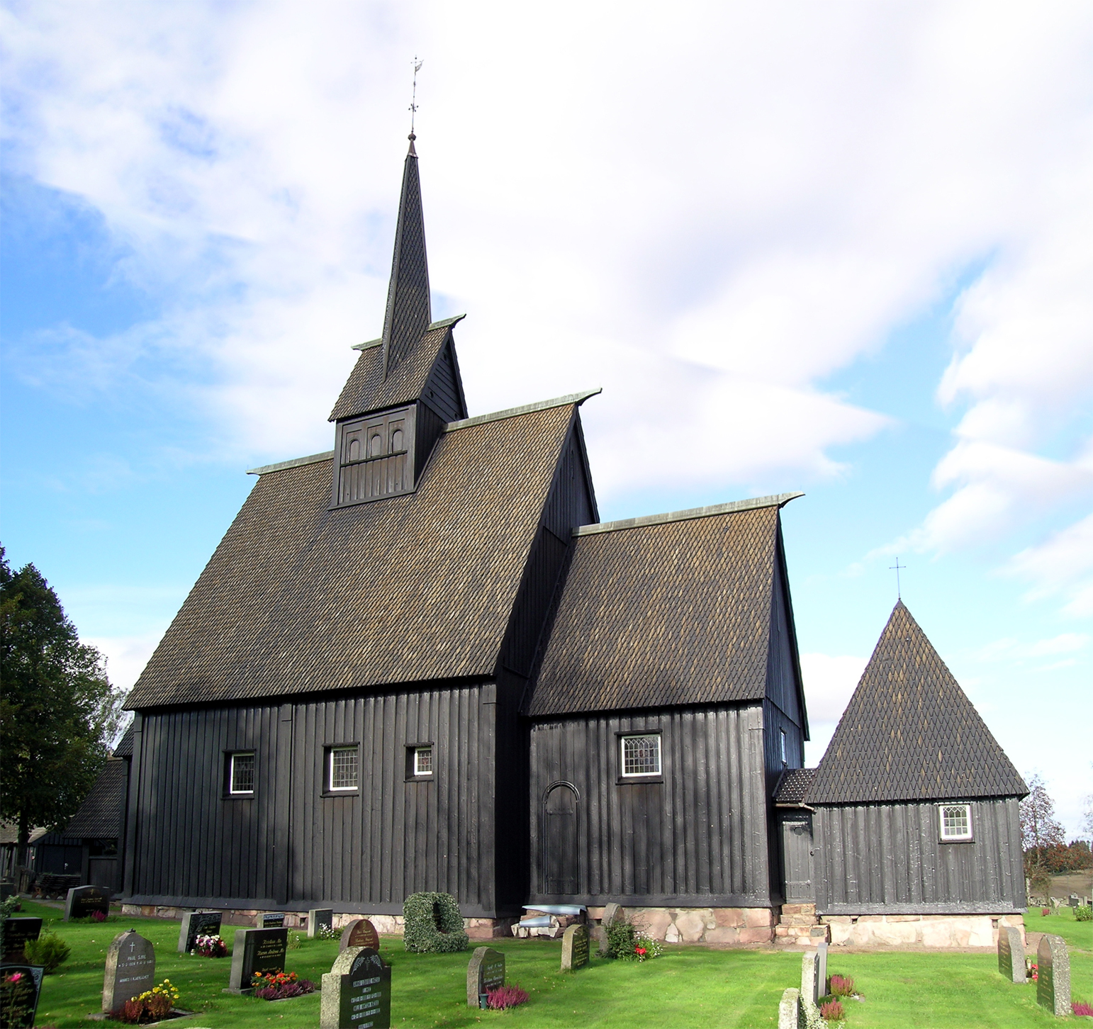 Høyjord stave church, Andebu, Vestfold, Norway.